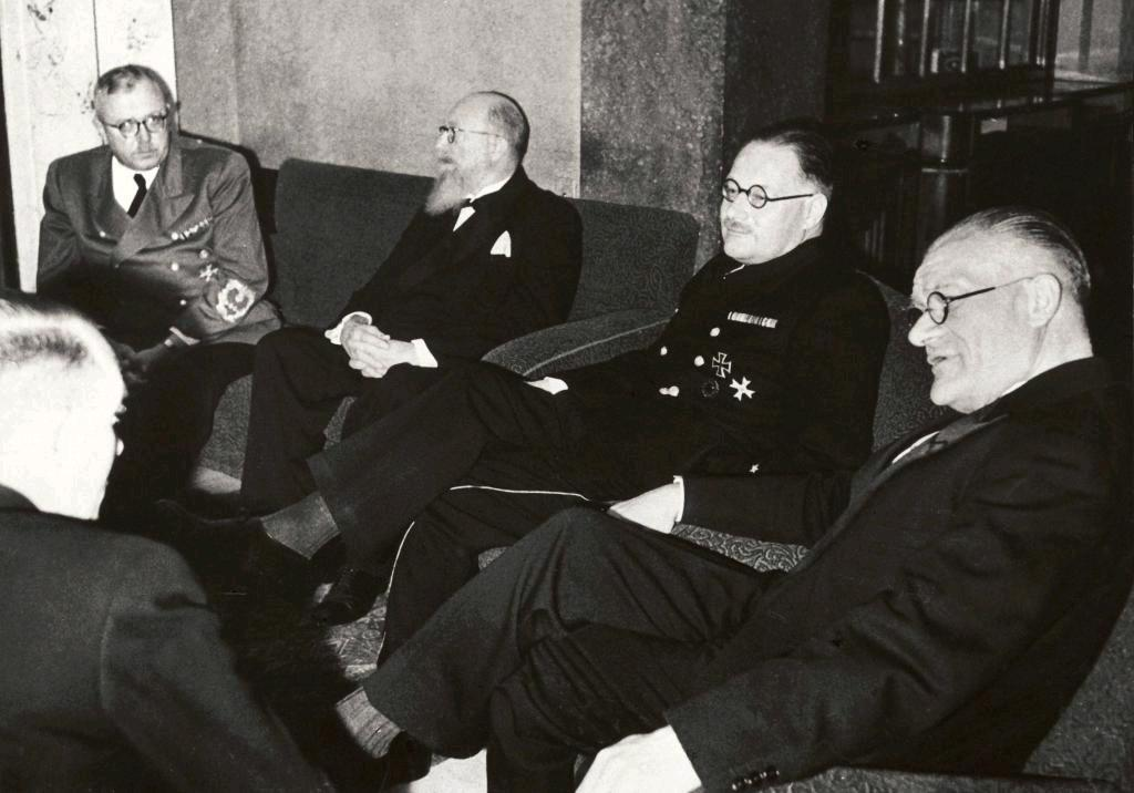 A meeting in Dansk-Tysk Forening (Danish-German Association), 1941. From left: Hinrich Lohse, Thorvald Stauning, Cecil von Renthe-Fink, and Peter Knutzen (chairman).